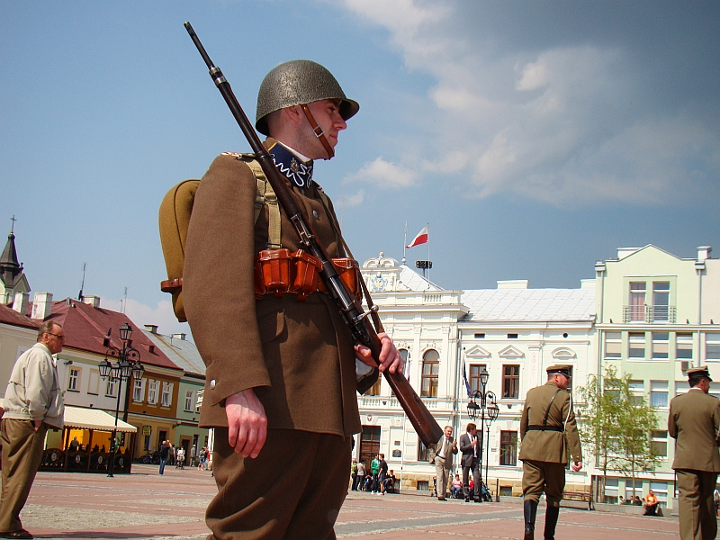 Feast of the Union of Soldiers of the Polish Army in Sanok